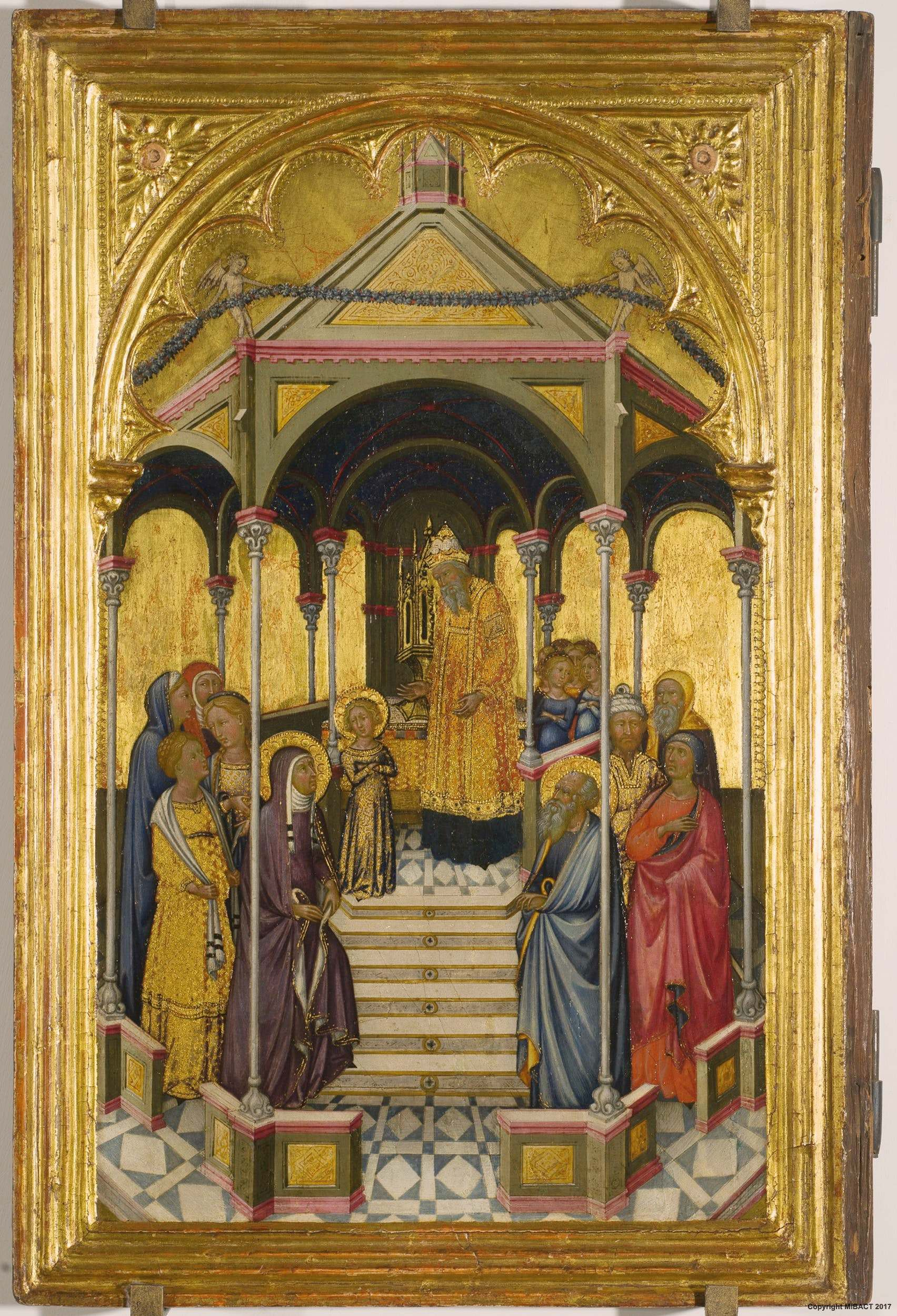 Niccolo_di_Buonaccorso._Presentation_of_the_Virgin._1380._Uffizi,_Florence